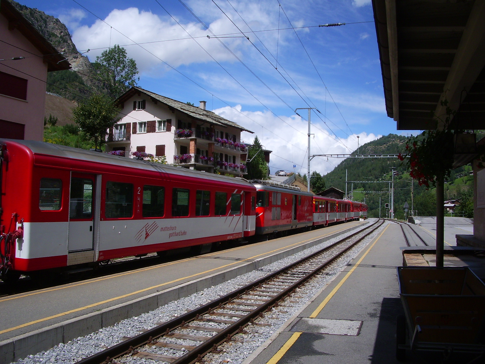 MGB Deh 4/4 No. 22 in St. Niklaus